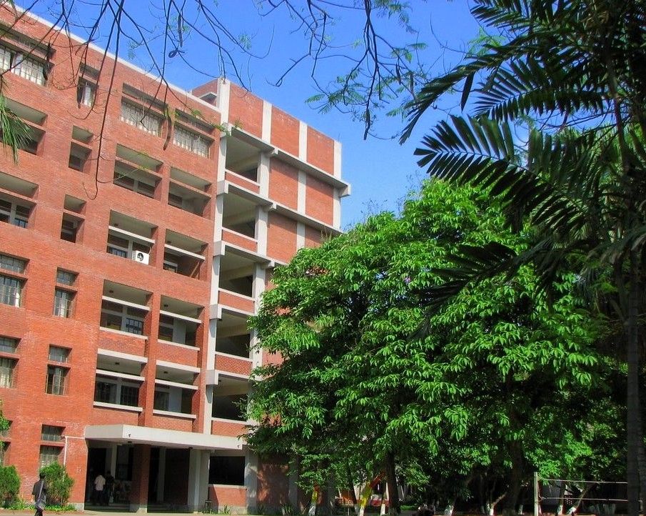 Academic building of Notra Dame College, Dhaka (Ganguly Building)